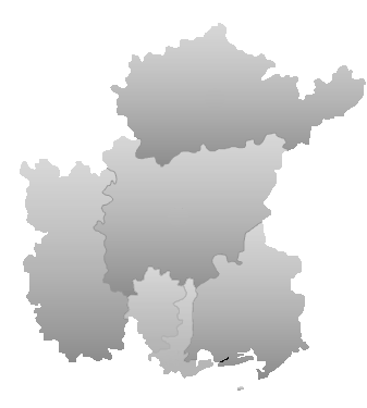 Map of Maoming in Guangdong province.